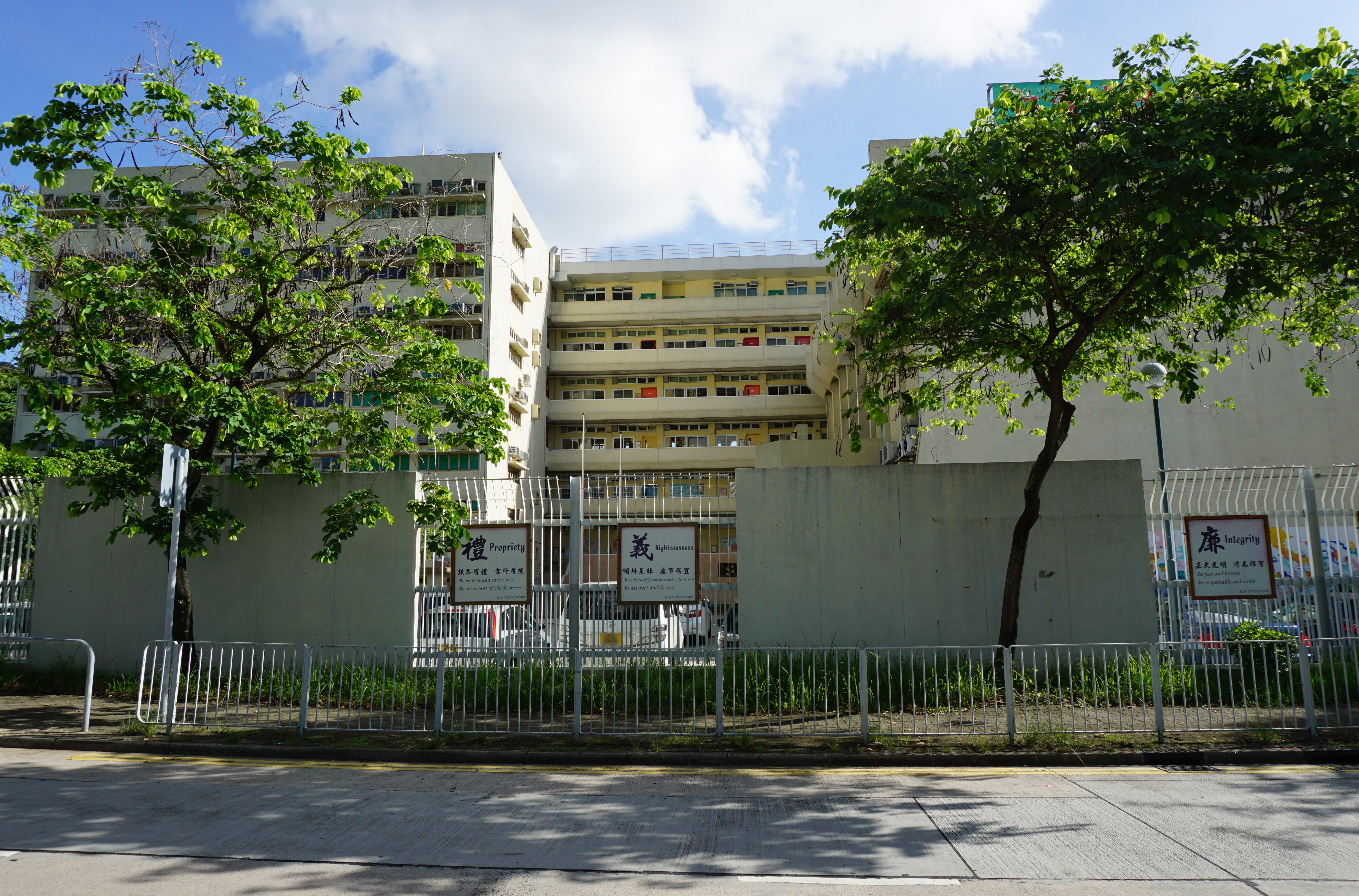 Yan Oi Tong Chan Wong Suk Fong Memorial Secondary School in Tuen Mun, Hong Kong.